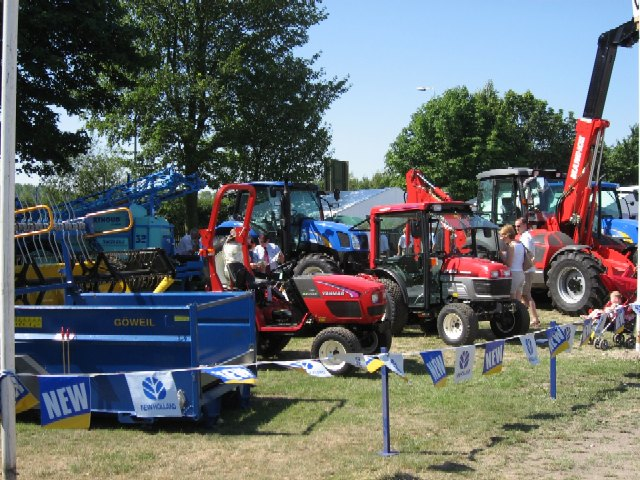 Farm Machinery At Driffield Show, Kelleythorpe, East Riding of Yorkshire, England.According to the exhibitor, a new combined harvester would cost "about £150,000 - after discount"!